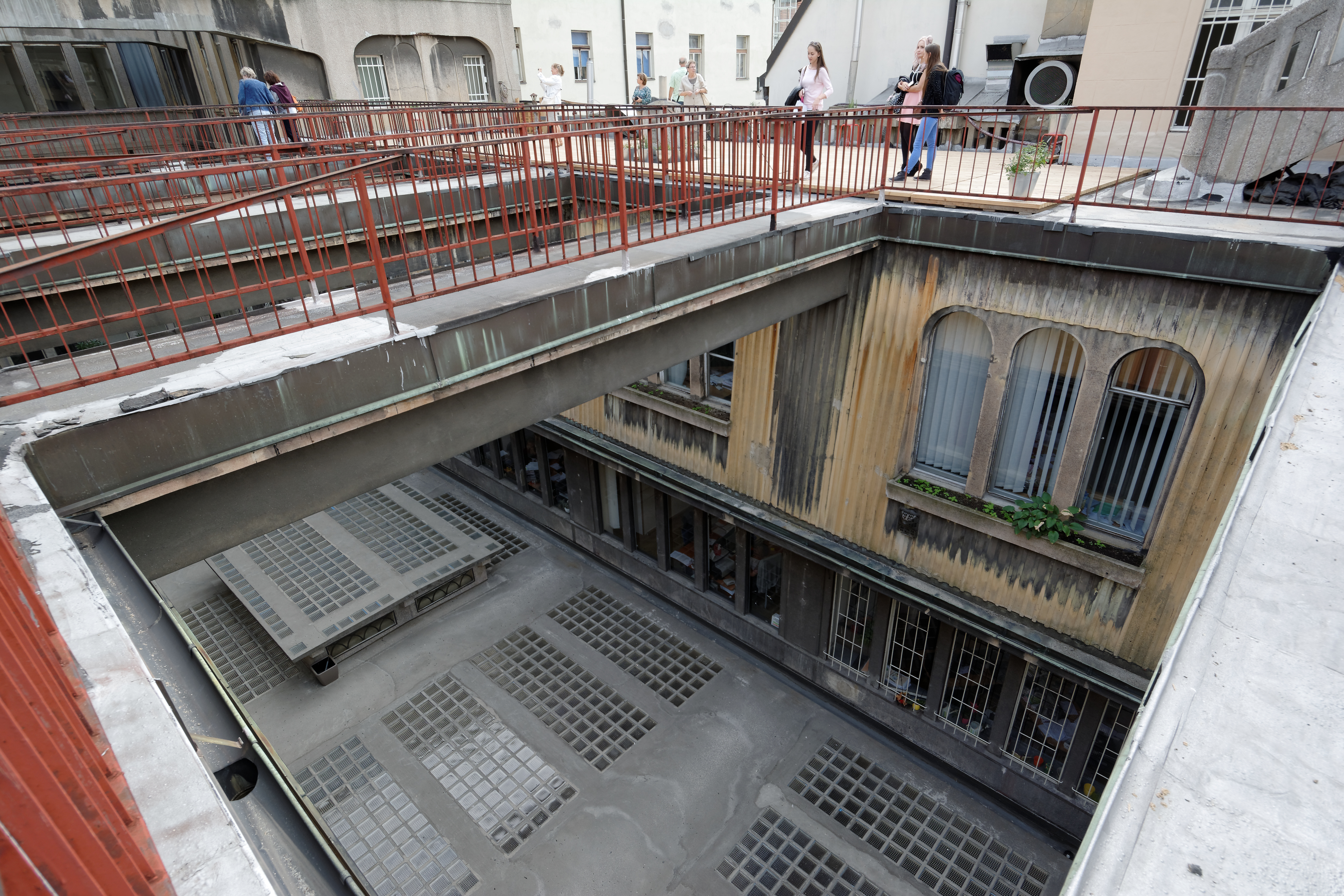 Lucerna Palace Rooftop Deck